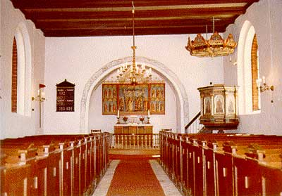 Hammelev church